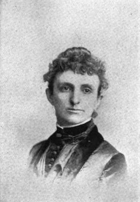 Carrie Stevens Walter